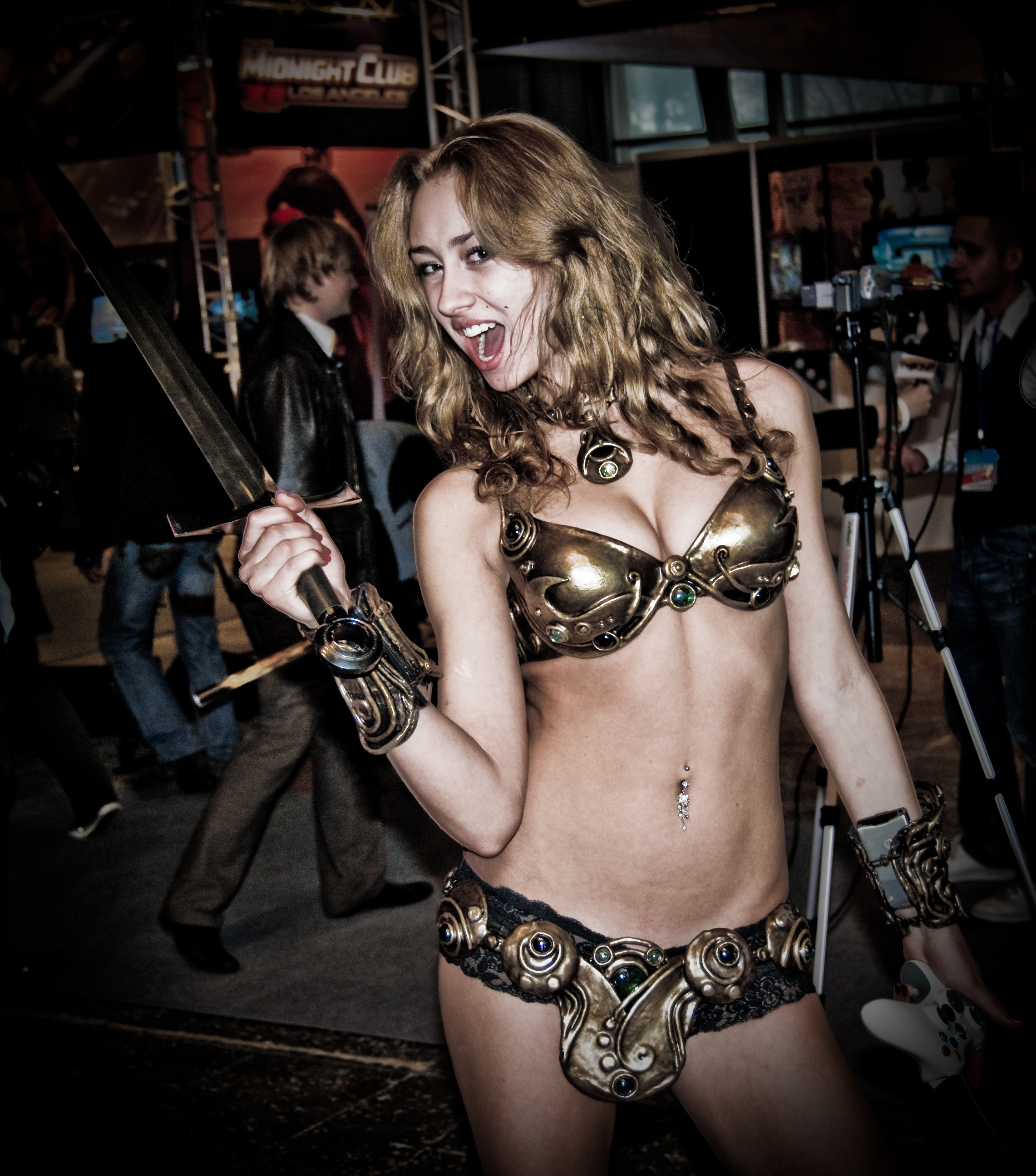 Just an experiment with tinting and effects in Lightroom